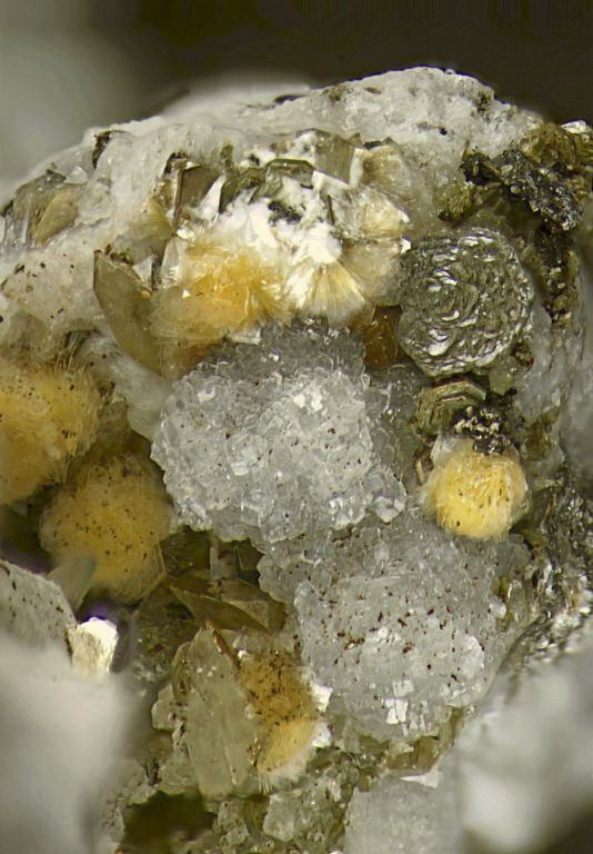 Phillipsite-K (FOV 4.5 x 6.3 mm) Locality: Poudrette quarry (Demix quarry; Uni-Mix quarry; Desourdy quarry; Carrière Mont Saint-Hilaire), Mont Saint-Hilaire, Rouville RCM, Montérégie, Québec, Canada Found May 1997. MOB coll. Phillipsite balls with yellow gmelinite and a dark green rosette of a donnayite group mineral (top right). (There are also some unid olive green hex tabular xls - muscovite?) (Note: I say "donnayite group" rather than "synchysite-(Ce)" because the aggregate has a typical "kettle drum" back side. But it has not been analyzed.) The phillipsite was ID (on another sample) via optics. It is probably –K because that is the only variety listed by Horvath (Lapis 7-8/200) for this environment (contact zone - specifically Poudrette pegmatite).